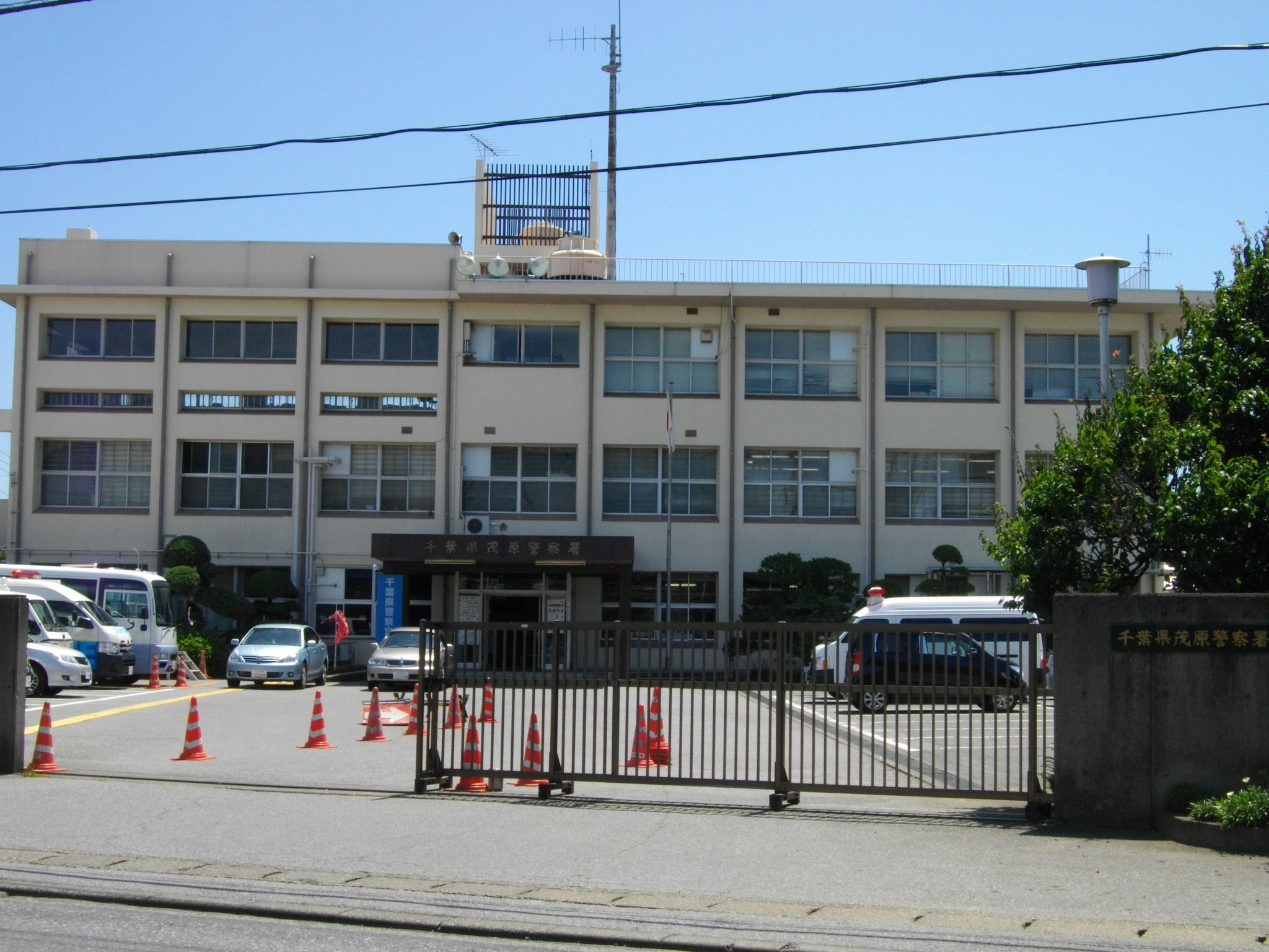 Mobara Police Station